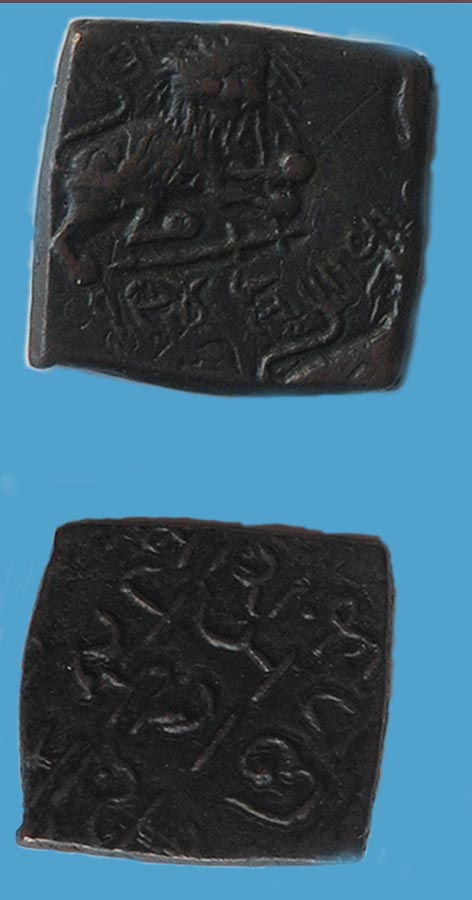 A Lunavada copper coin struck by Wakhat Singhu (1867–1919). I own this coin that is more than 75 years old and is therefore out of copyright. I personally took this photo.